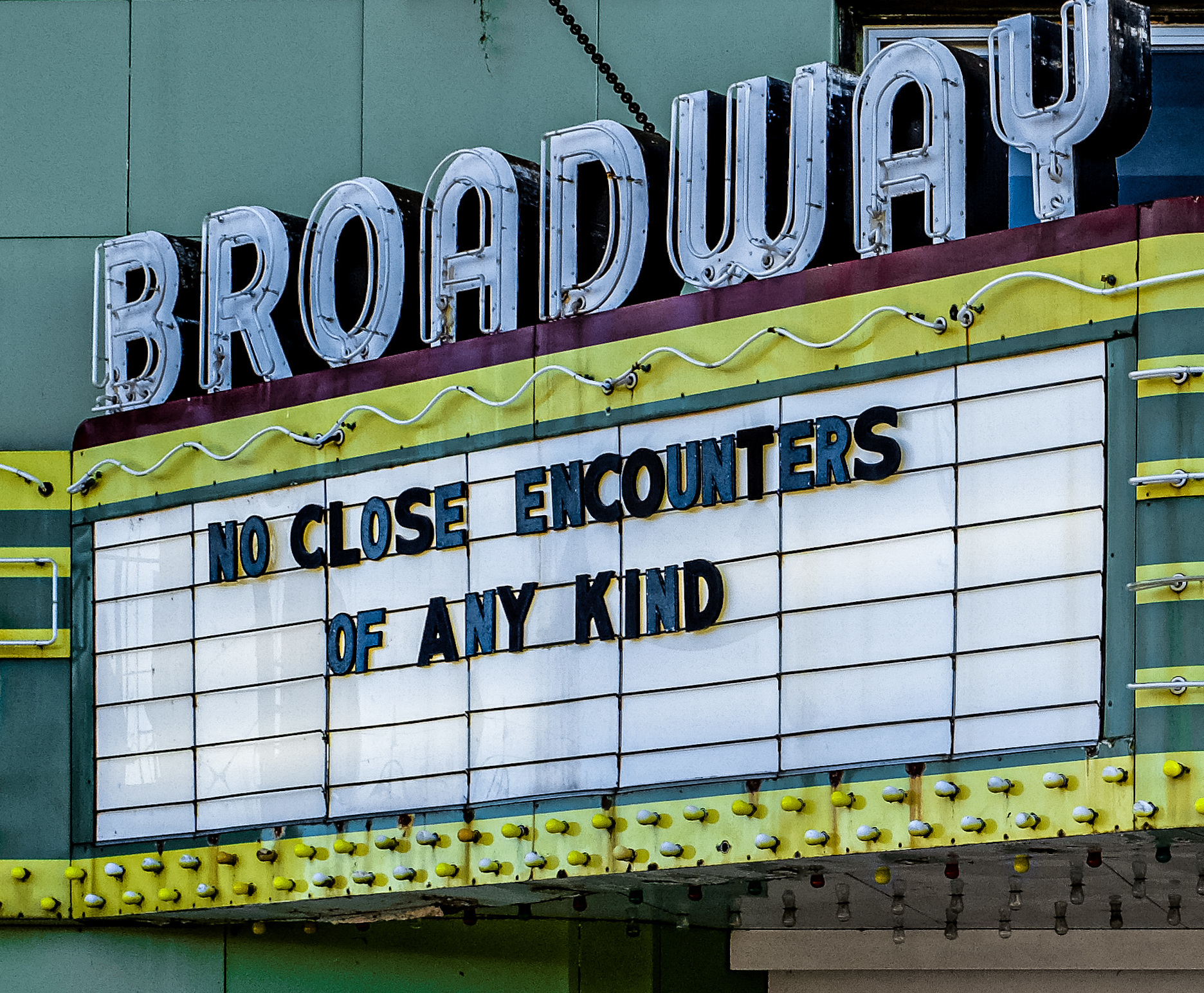 Closed during the COVID-19 pandemic, Mt. Pleasant's Broadway Theatre uses its marquee to spread a (comedic) message in support of social distancing and hand washing